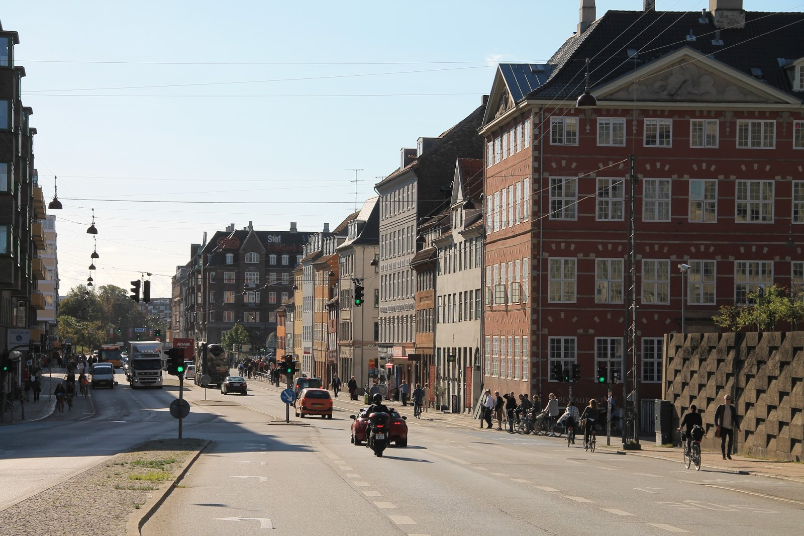 Torvegade (Store Torvegade) in Christianshavn, Copenahgen, Denmark